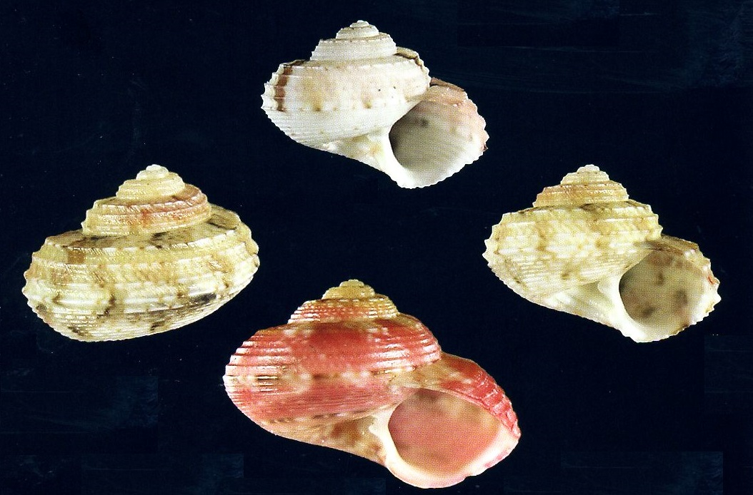 Shells of Pseudominolia tramieri G.T. Poppe, S.P. Tagaro & H. Dekker, 2006